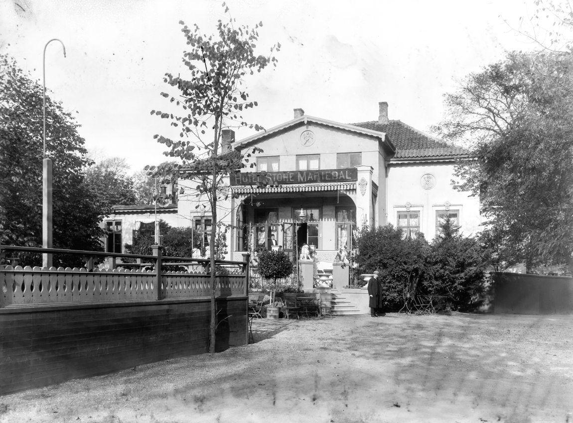 Hotel Store Mariedal at Strandvejen in Copenhagen, Denmark